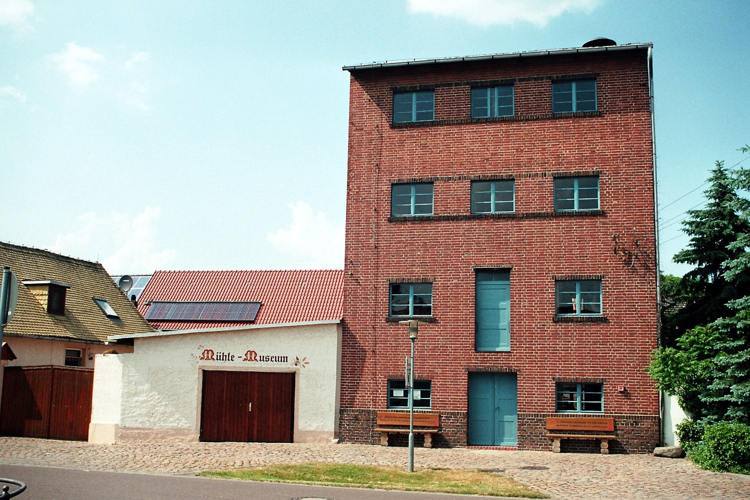 Reppichau (Osternienburger Land), the mill museum